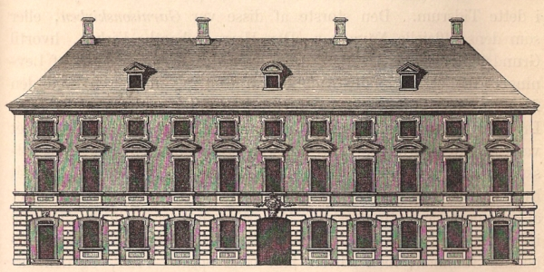 Generalkommisariatet in Copenhagen, Denmark